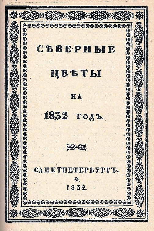 The title page of the "Severnie tsveti" (russian "Северные цветы") literary miscellany of Anton Delvig. Published by Alexander Pushkin, 1832.